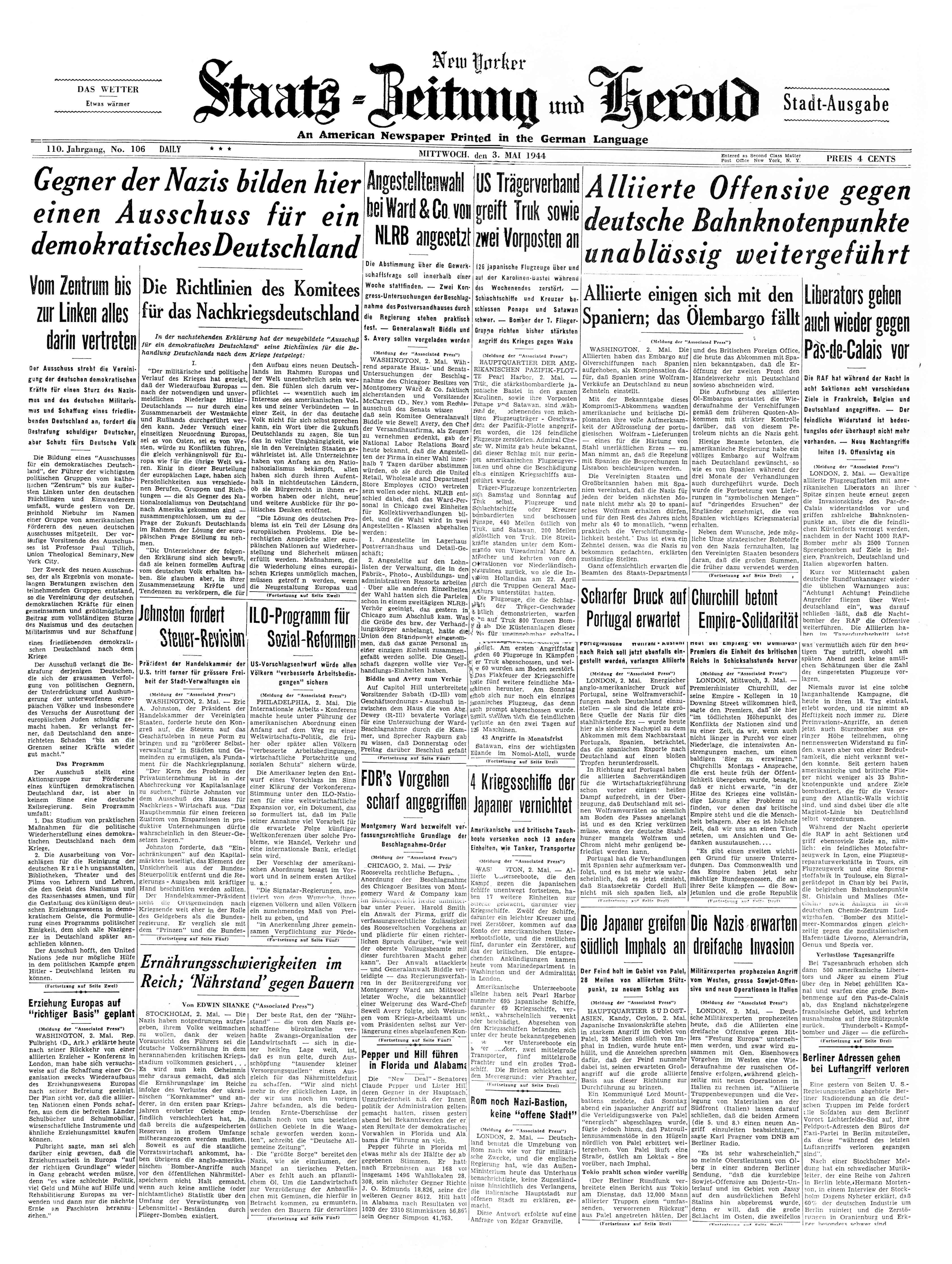 image: front page: Staats-Zeitung und Herold NewYork 1944, Gründungsaufruf "Council for a Democratic Germany" NewYork 1944